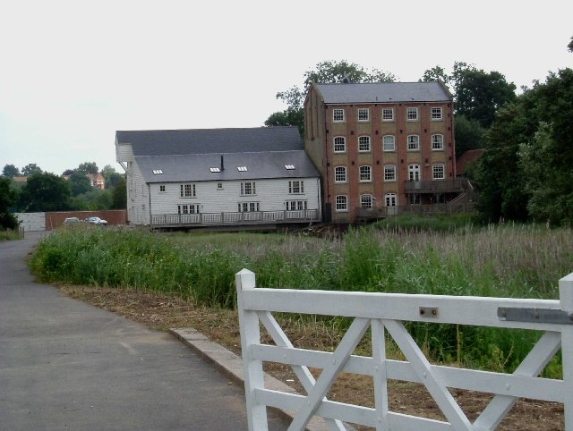 Mill on Roman River. The mill has been recently restored